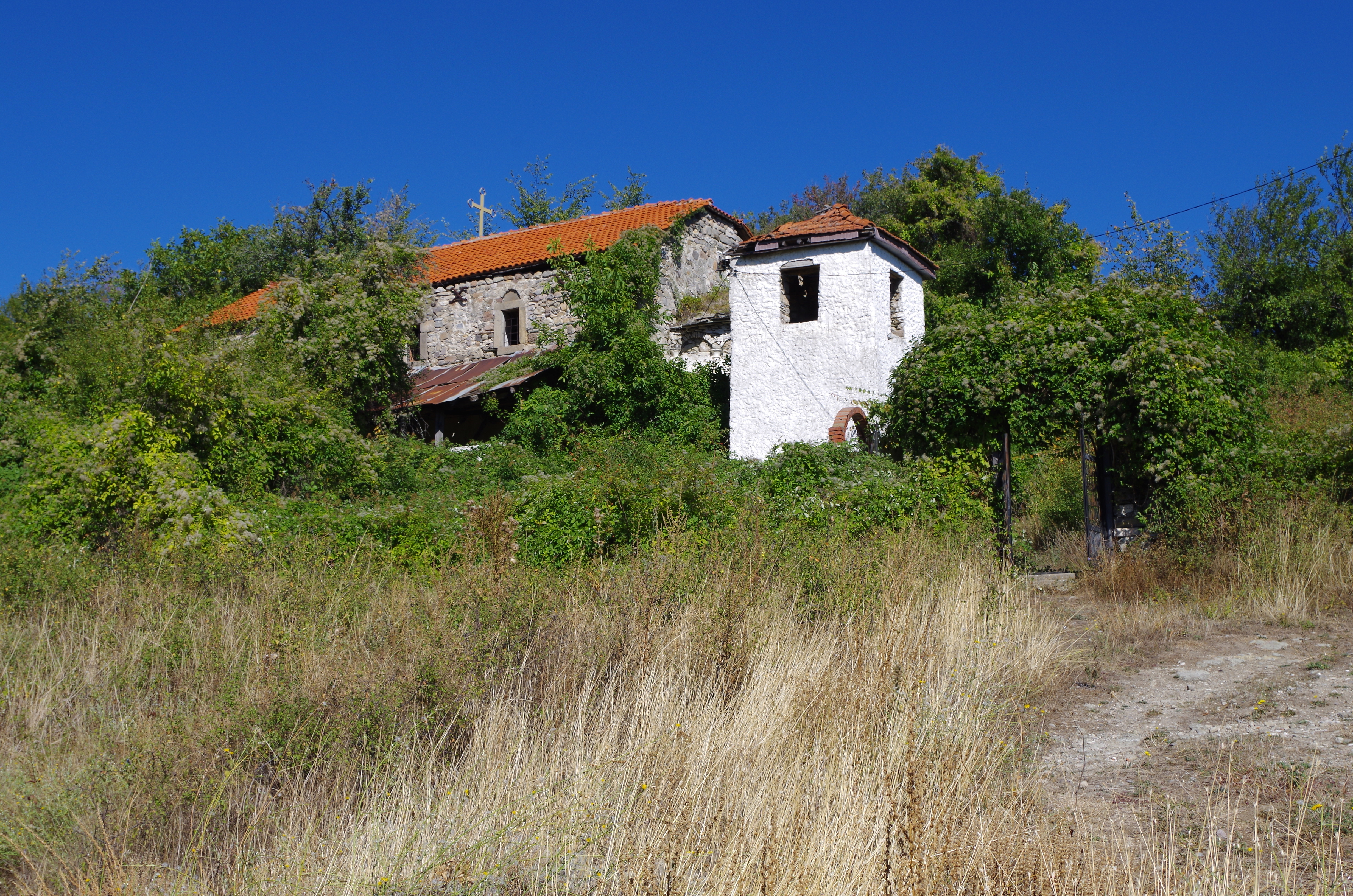 Church of the Ascension of Jesus in the village of Rožden